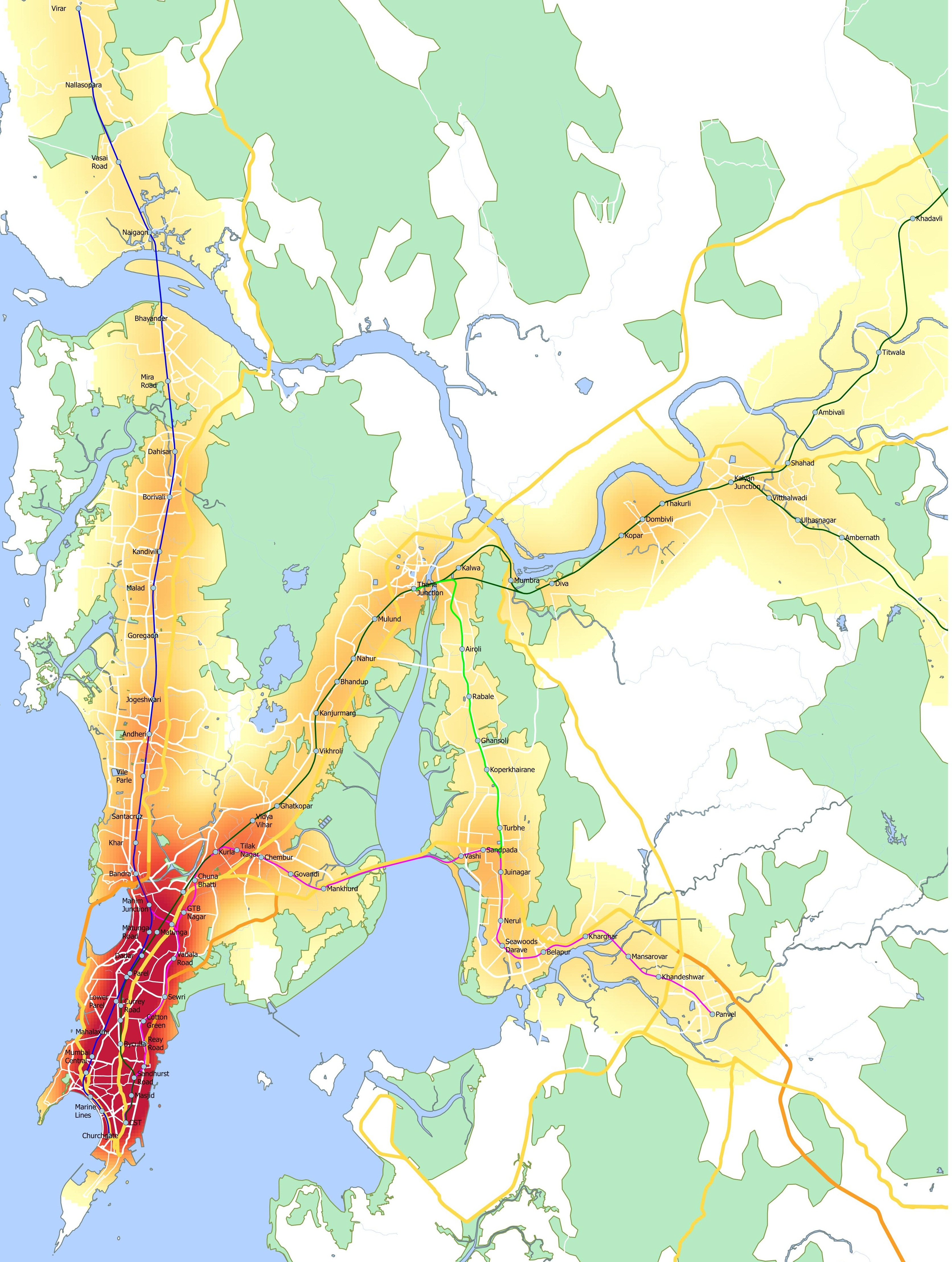 This is a heatmap showing the density of local trains and stations in Mumbai metropolitan region. The Island City District is having the highest density of local trains and stations as it is serviced by 3 railway lines i.e. Western, Central & Harbour in a narrow land strip. As we move out of this city region, we can see that the neighbourhoods/suburbs even within MCGM limits and also those beyond MCGM limits are serviced by only one railway line. For instance, the Western suburbs are serviced only by Western Line while the Central burbs are serviced only by Central Line and most of the neighbourhoods of Navi Mumbai are serviced by either the Harbour or the Trans-Harbour Line. The raster heatmap has been created in QGIS software using the local train stations as a point vector layer and number of trains per day at each station as an additional weight factor. The raw data for the entire map has been downloaded from OpenStreetMap. All editing and rendering to produce this final map has been done in QGIS software. The stations within MCGM limits have a higher number of trains than those in the remote suburbs. The frequency of trains decreases as we go away from Mumbai. Only those railway lines through which local trains run, are marked in this map. Data of no. of trains at each station has been taken from Railway Websites.